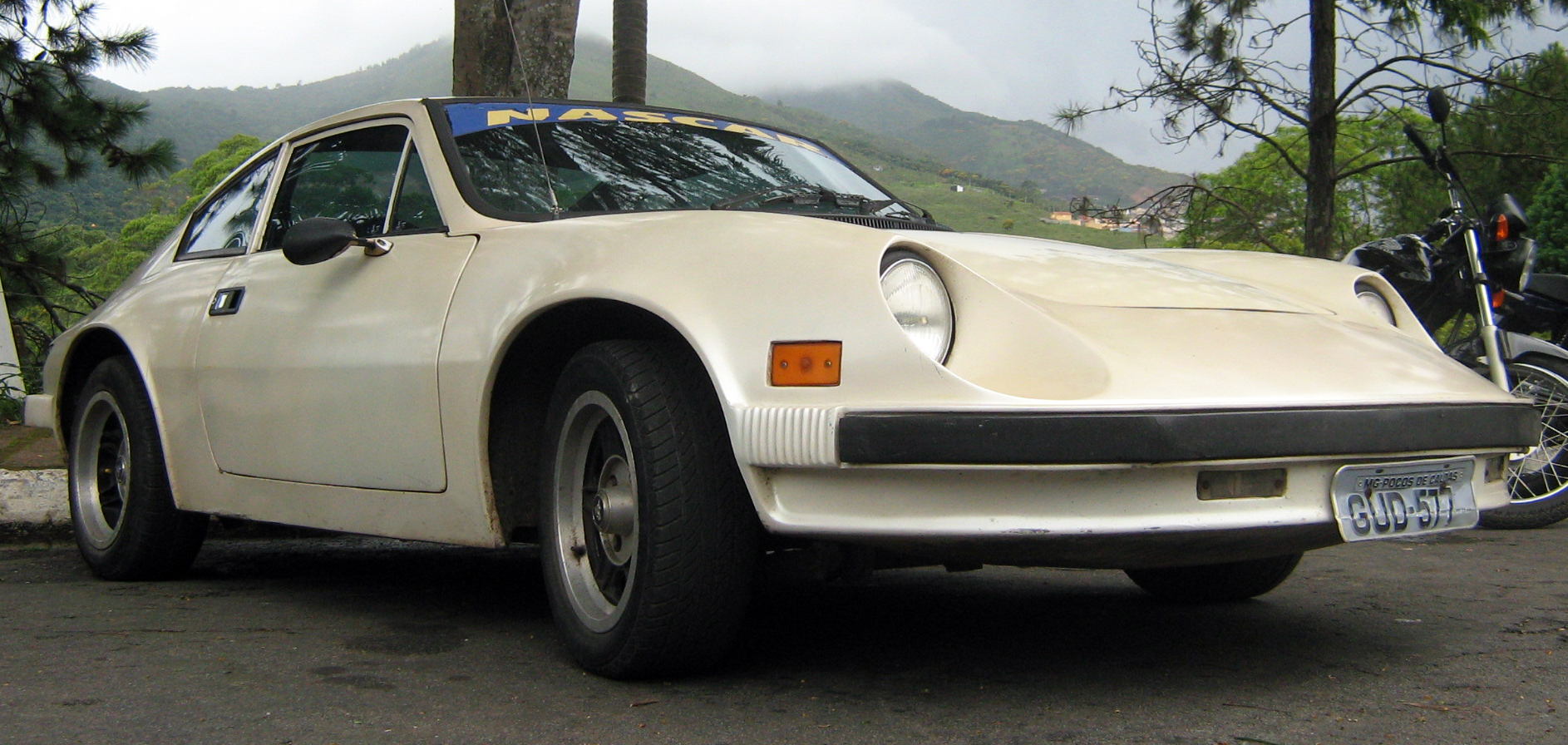 A somewhat weatherbeaten 1981-1984 (1985?) Puma GTI seen in Poços de Caldas, Brazil.